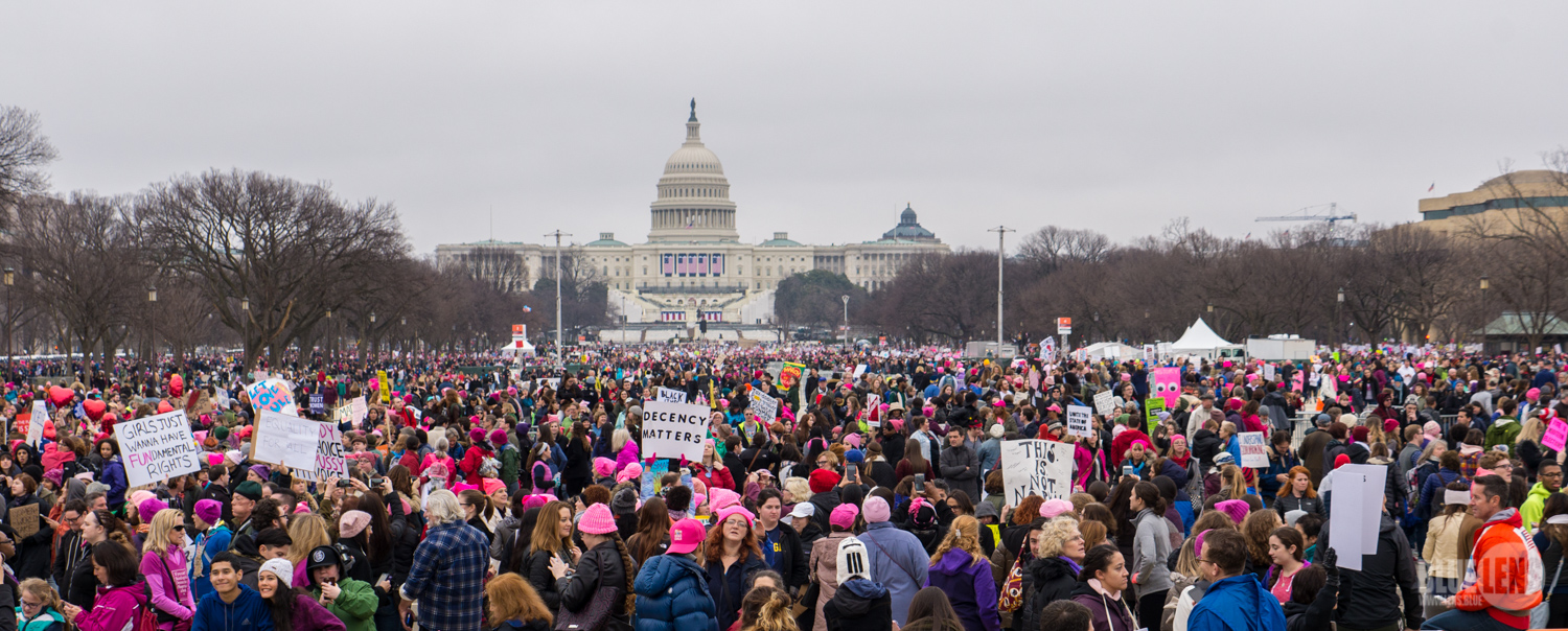 Trump-WomensMarch_2017-top-1510075